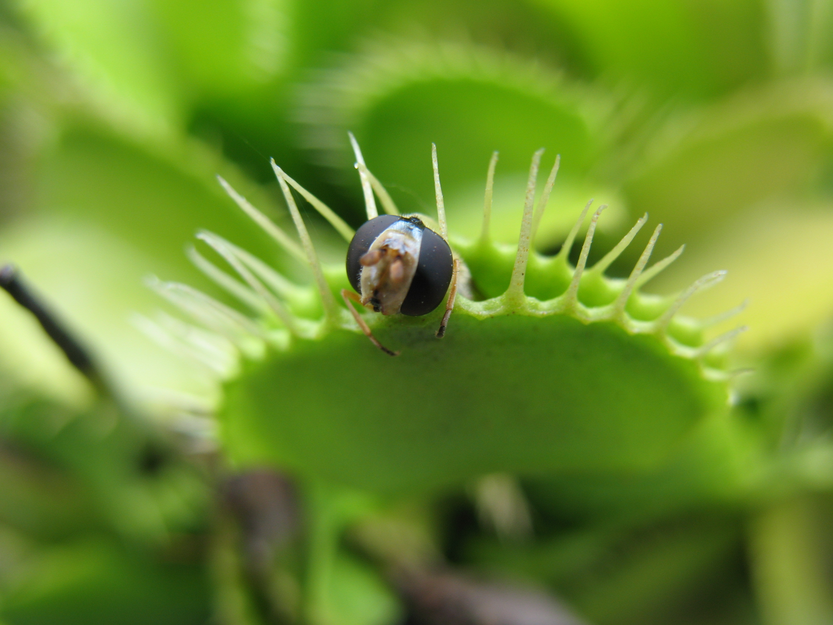 A dionaea muscipula has just caught an hoverfly.